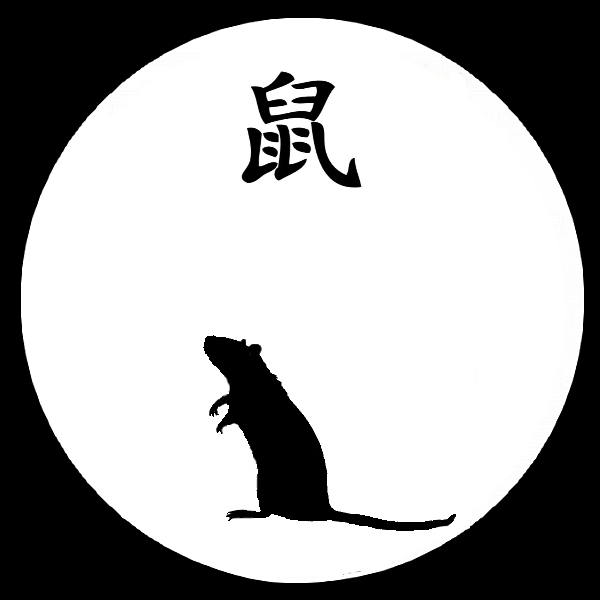 Signe astrologique chinois du Rat